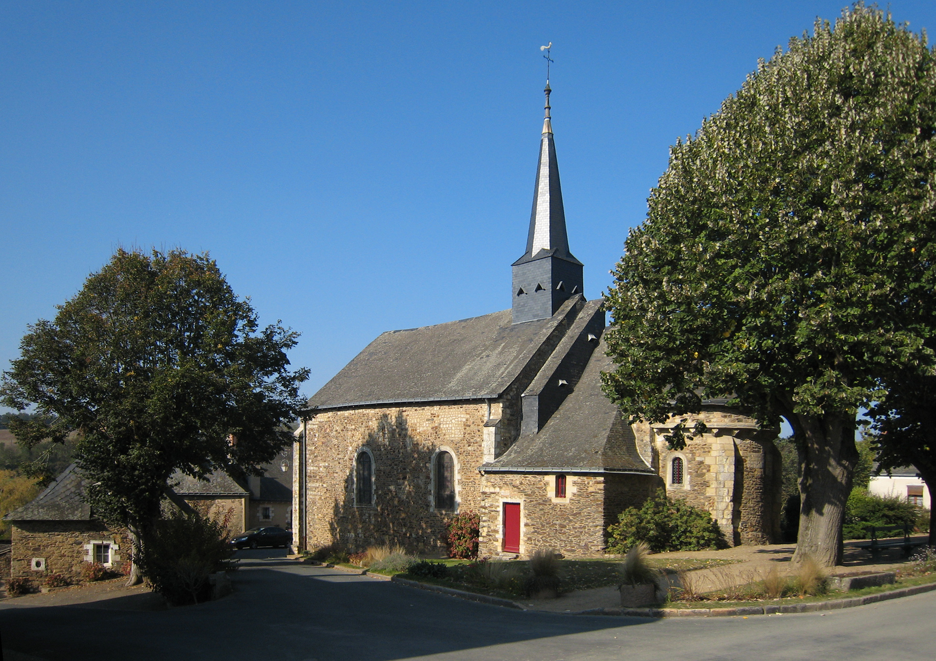 Village of Chenillé-Changé, located on the river Mayenne in the département of Maine-et-Loire in the Region Pays de la Loire in France; old church.